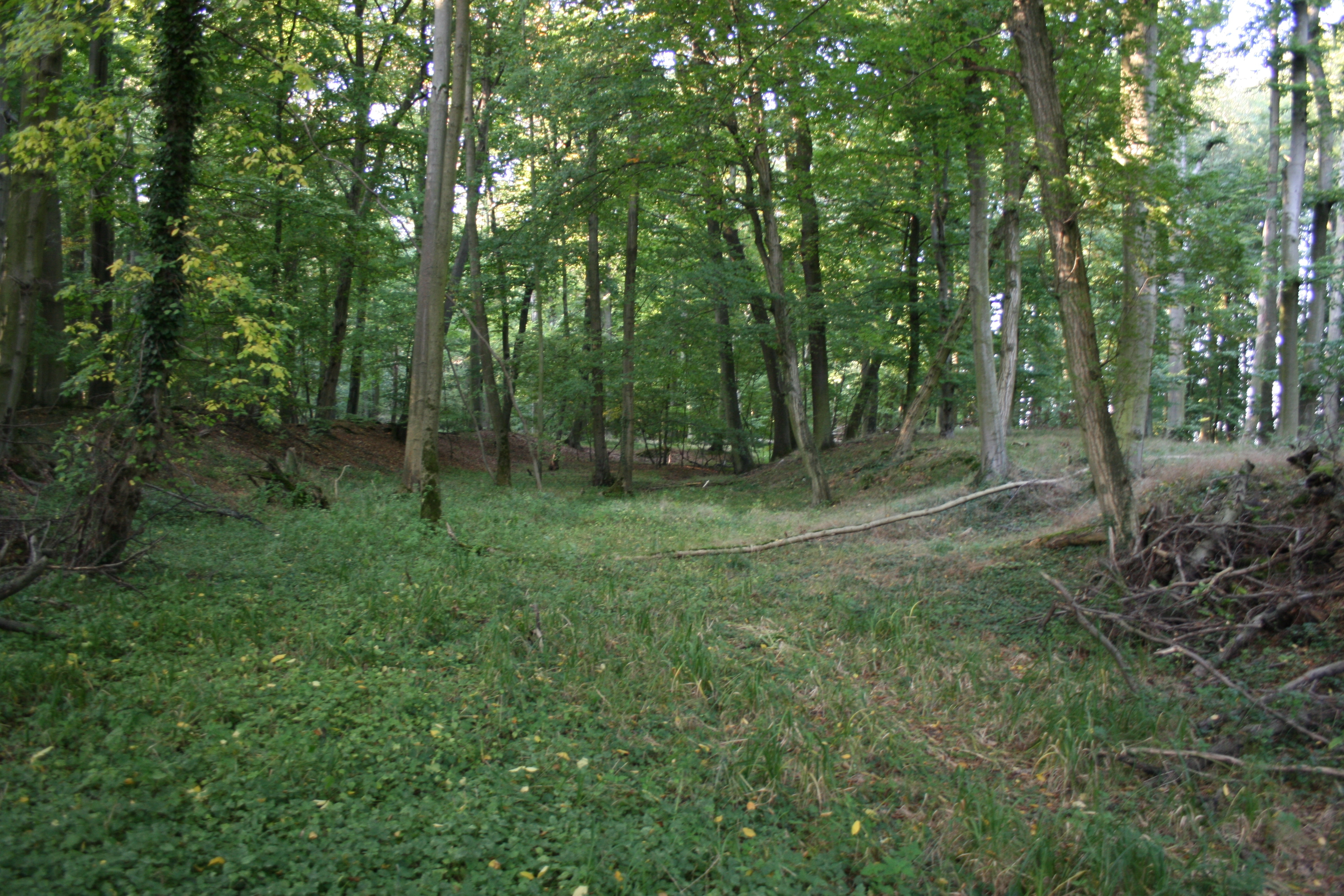 Castle Altenburg, Hanau-Mittelbuchen, Hesse.